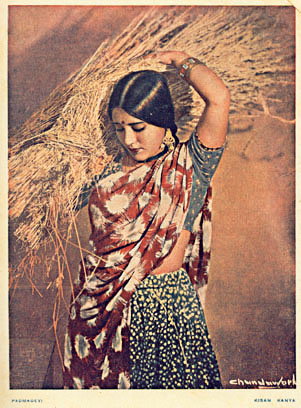 Kisan Kanya (1937), directed by Moti B. Gidvani and produced by Ardeshir Irani.